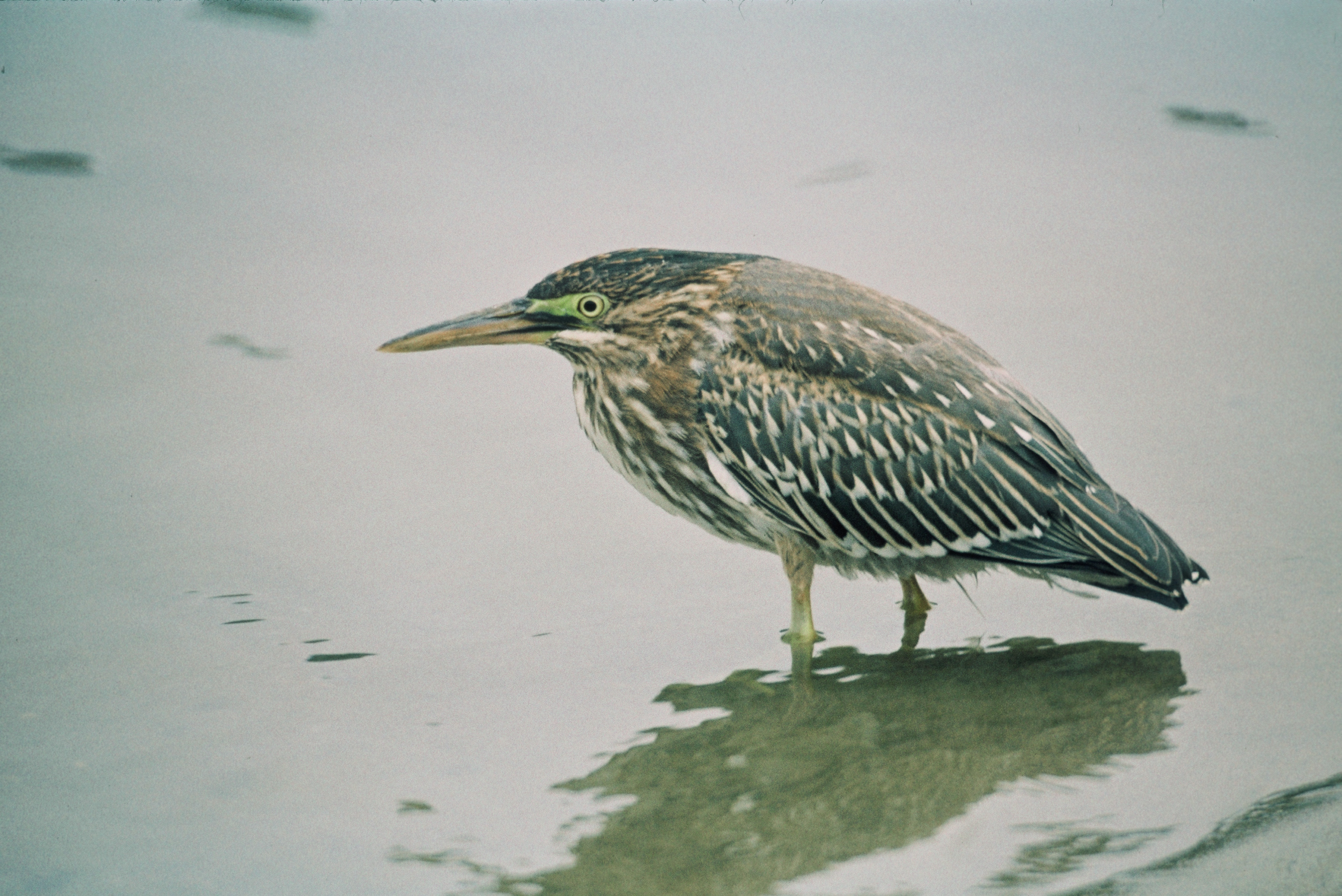 Green Heron, Butorides virescens